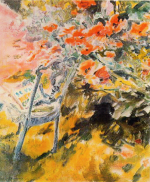 Kupfermann Poppies by Chair 1987 approx. Oil on Canvas;Other information: This is a pic from the works of my dad. Permission given by J.Kupfermann